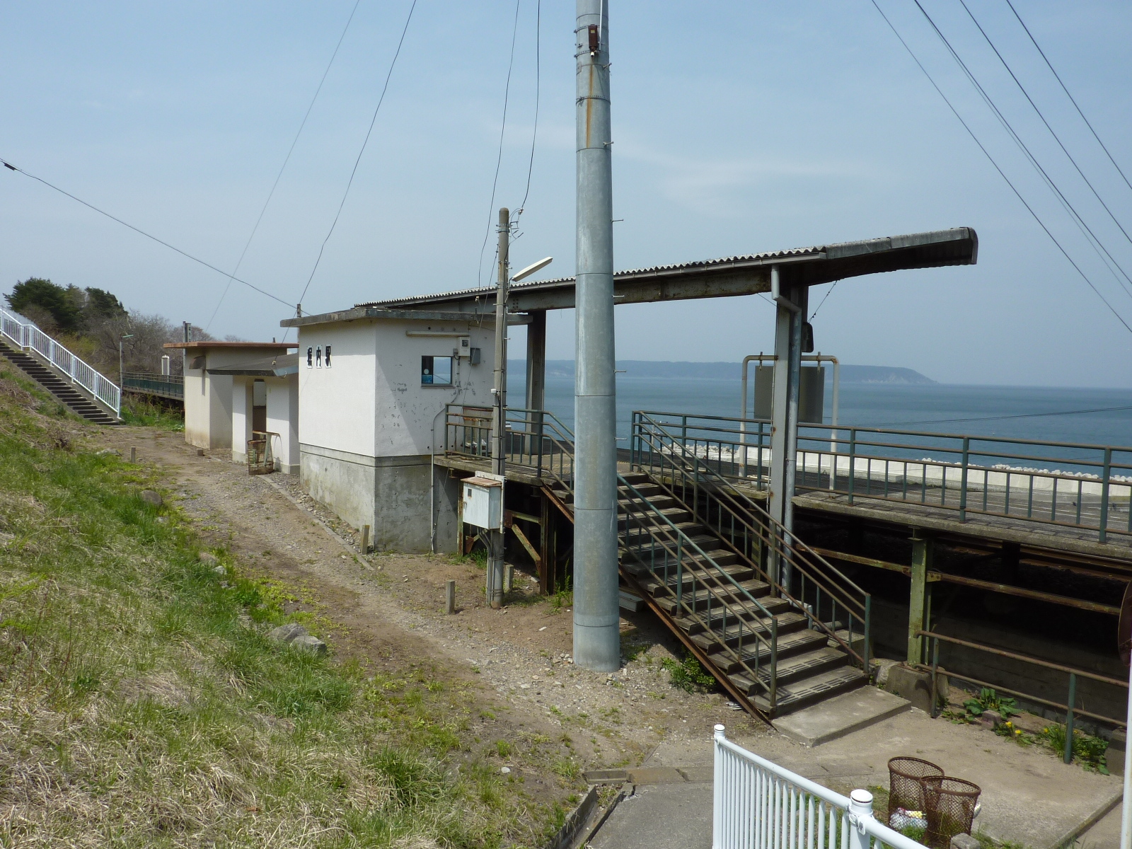 Horinai Station on Sanriku Railway Kita Riasu Line, in Fudai Village, Shimohei District, Iwate Prefecture, Japan